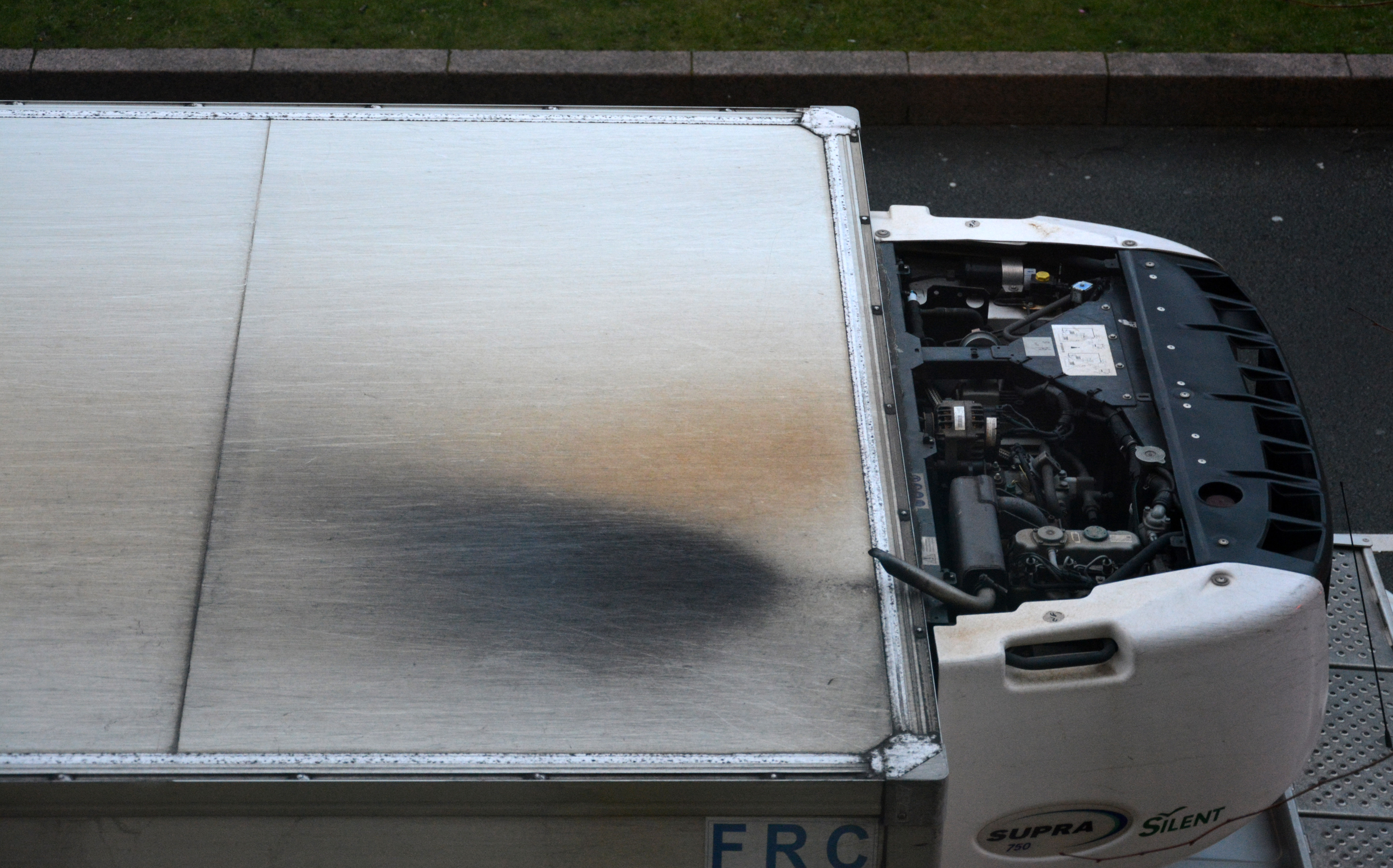 air pollution (carbon black) by a refrigerated truck in Lille (northern France)